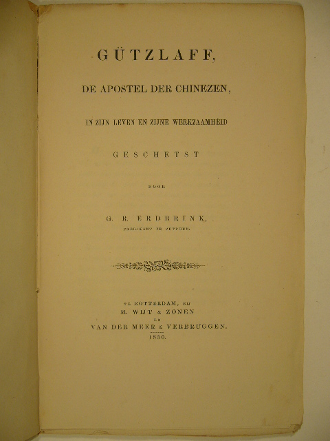 Gützlaff, de Apostel der Chinezen in zijn leven en zijne Werkzaamheid geschetst